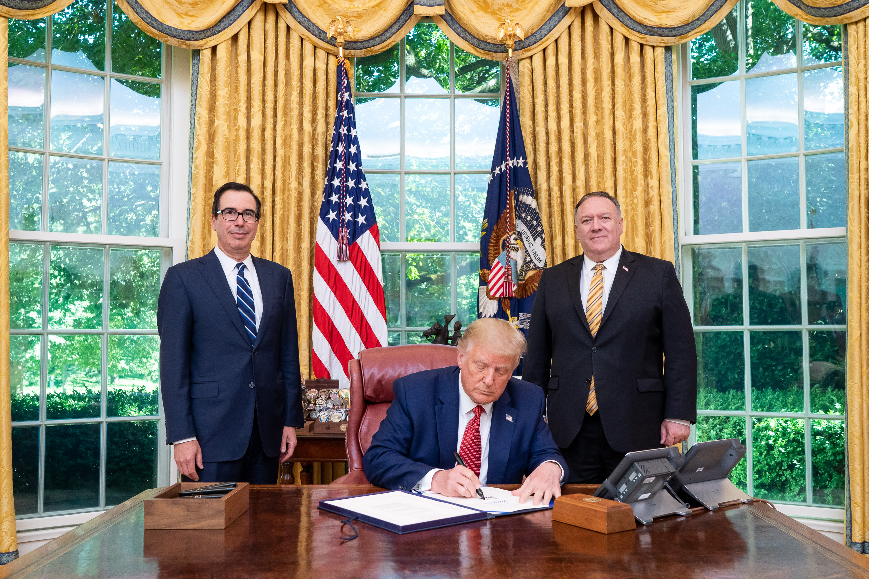 President Donald J. Trump, joined by Secretary of the Treasury Steven Mnuchin and Secretary of State Mike Pompeo, signs the unanimously approved H.R. 7440, the Hong Kong Autonomy Act and "The President’s Executive Order on Hong Kong Normalization", Tuesday, July 14, 2020, at his desk in the Oval Office of the White House. (Official White House Photo by Tia Dufour)